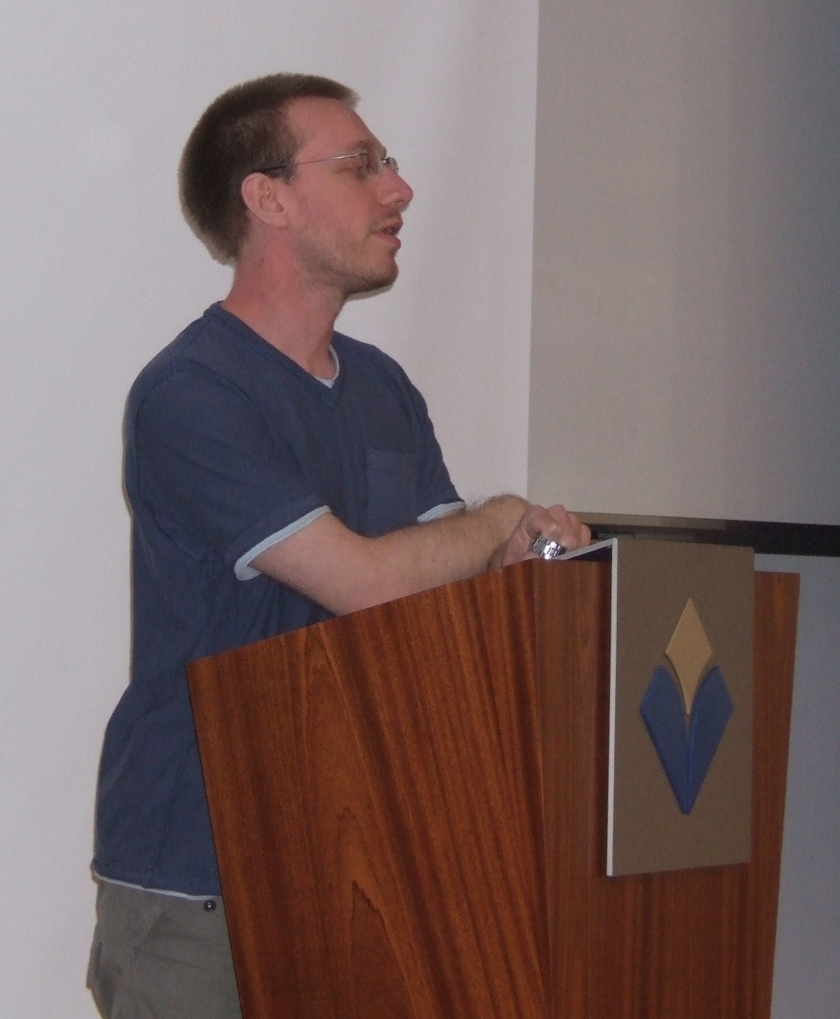 Daniel Tammet giving a speech at Reykjavík University on 21 June, 2007. Picture taken by Haukurth. Cropped with GIMP but otherwise unedited.